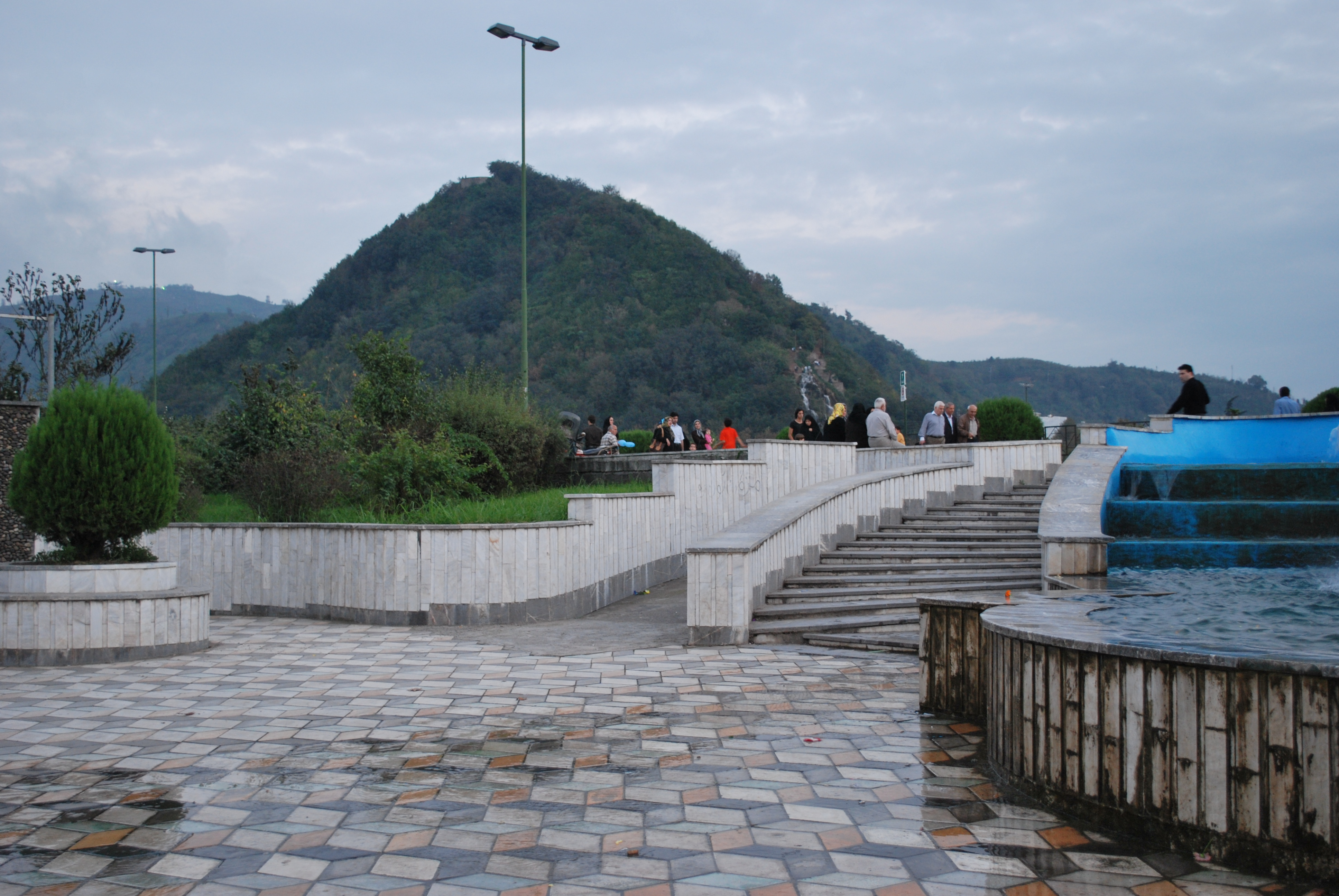 Sheitan kooh in Lahijan